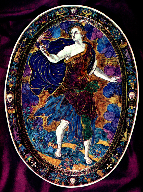 Ceres with torch in search of Proserpina. Medaillon by Martial Reymond, after 1550.